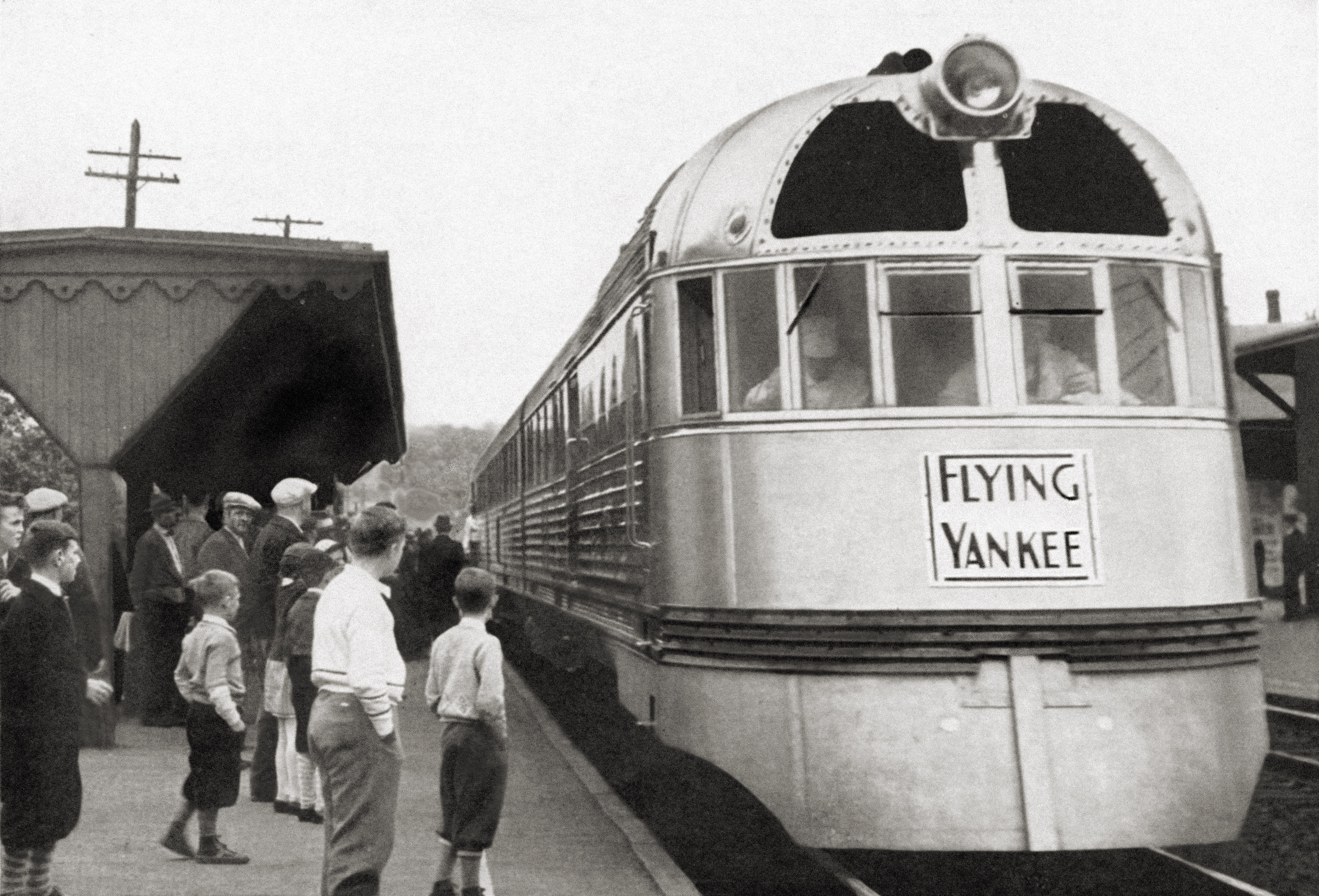 February 1938 advertisement for electric trains by General Electric, depicting the Flying Yankee. Cropped to show only the image of the train.